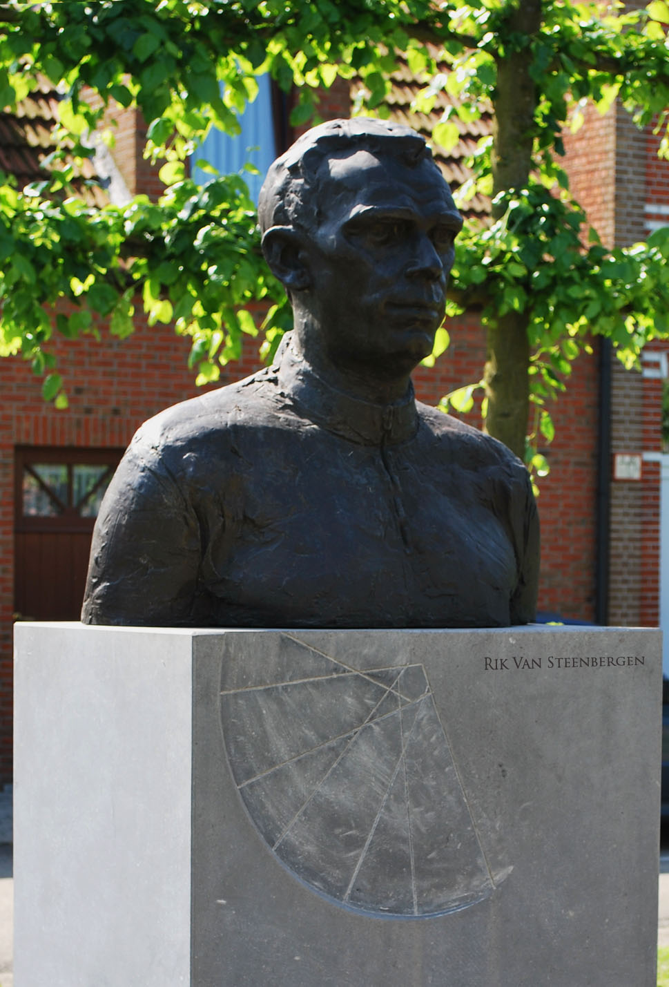 Torso in memory of cyclist Rik Van Steenbergen, created by the Arendonk Academy of Art and officially inaugurated on October 10th, 2004